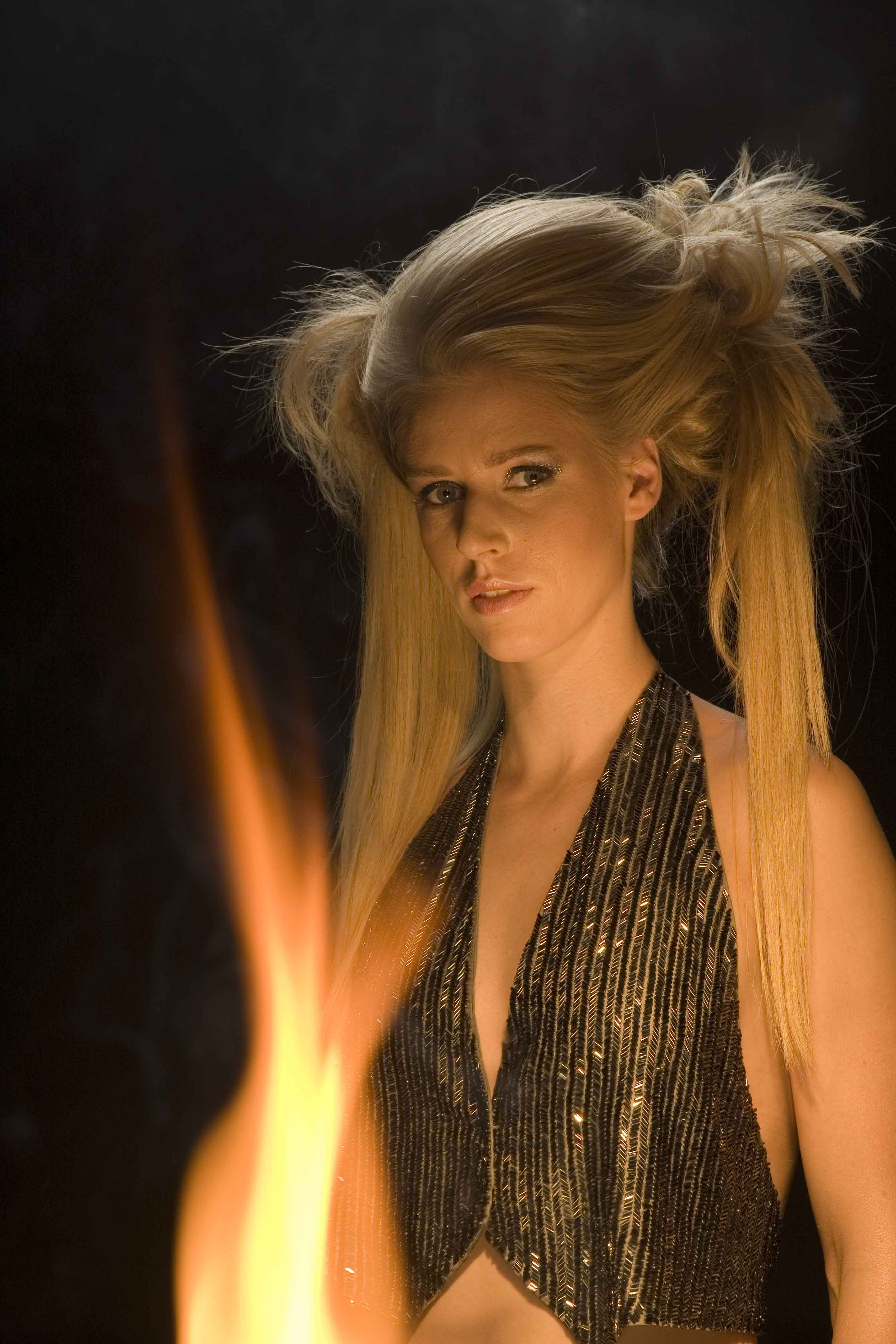 Elena Dementieva, april 2007